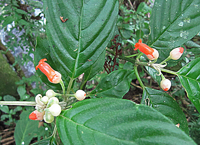 Photo from Juan Castro Blanco Park, Costa Rica. In context at